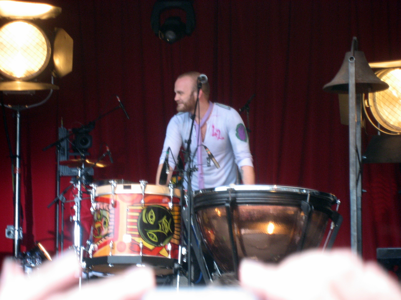 Will Champion of Coldplay.